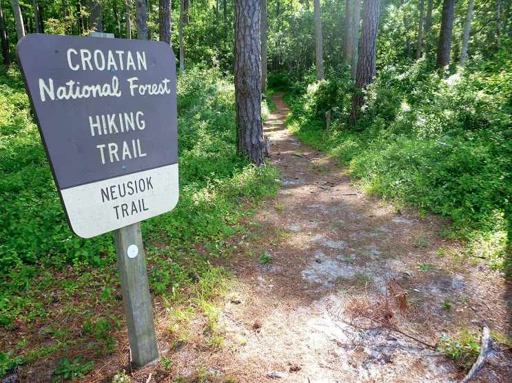 Neusiok Trail Sign with beginning of trail in the background.